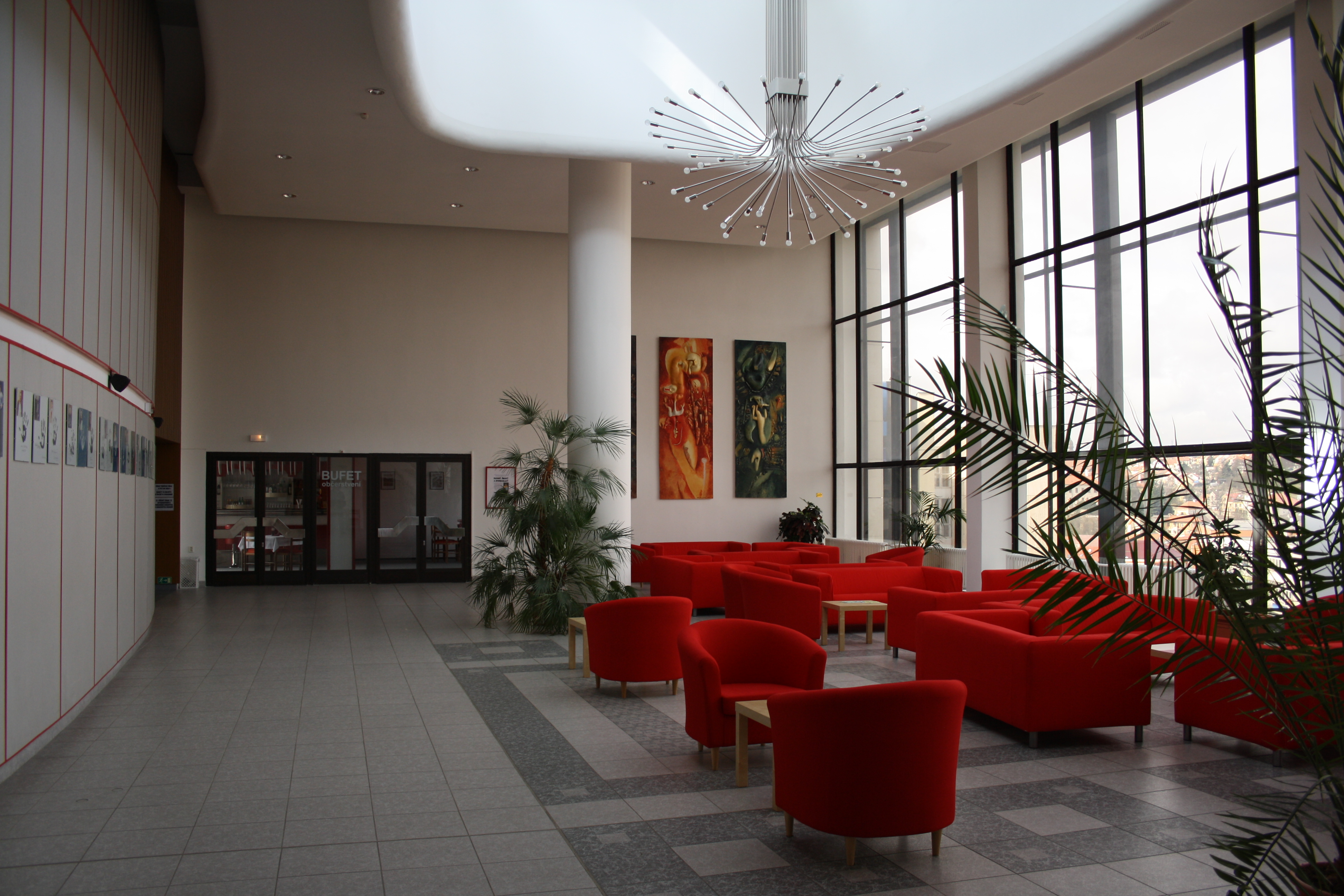 Foyer of Divadlo Pasáž in Třebíč, Czech Republic.